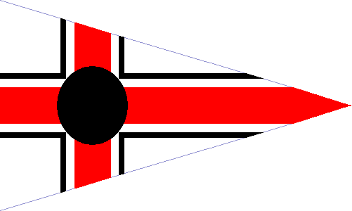 Yacht club flag Hamburger SC